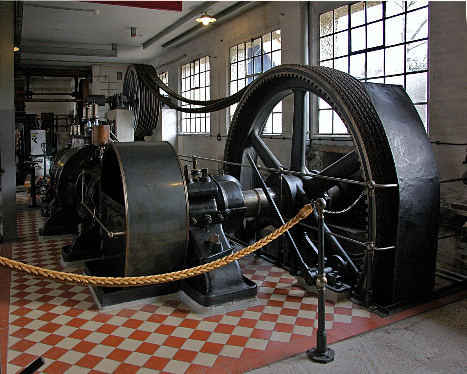 The tandem steam engine (of 500 horsepowers) of the Industriemuseum Lauf, built 1902 by Rockstroh/Marktredwitz. The steam engine was operating from 1903 to 1985 at Christof Döring sawmills at Lauf.